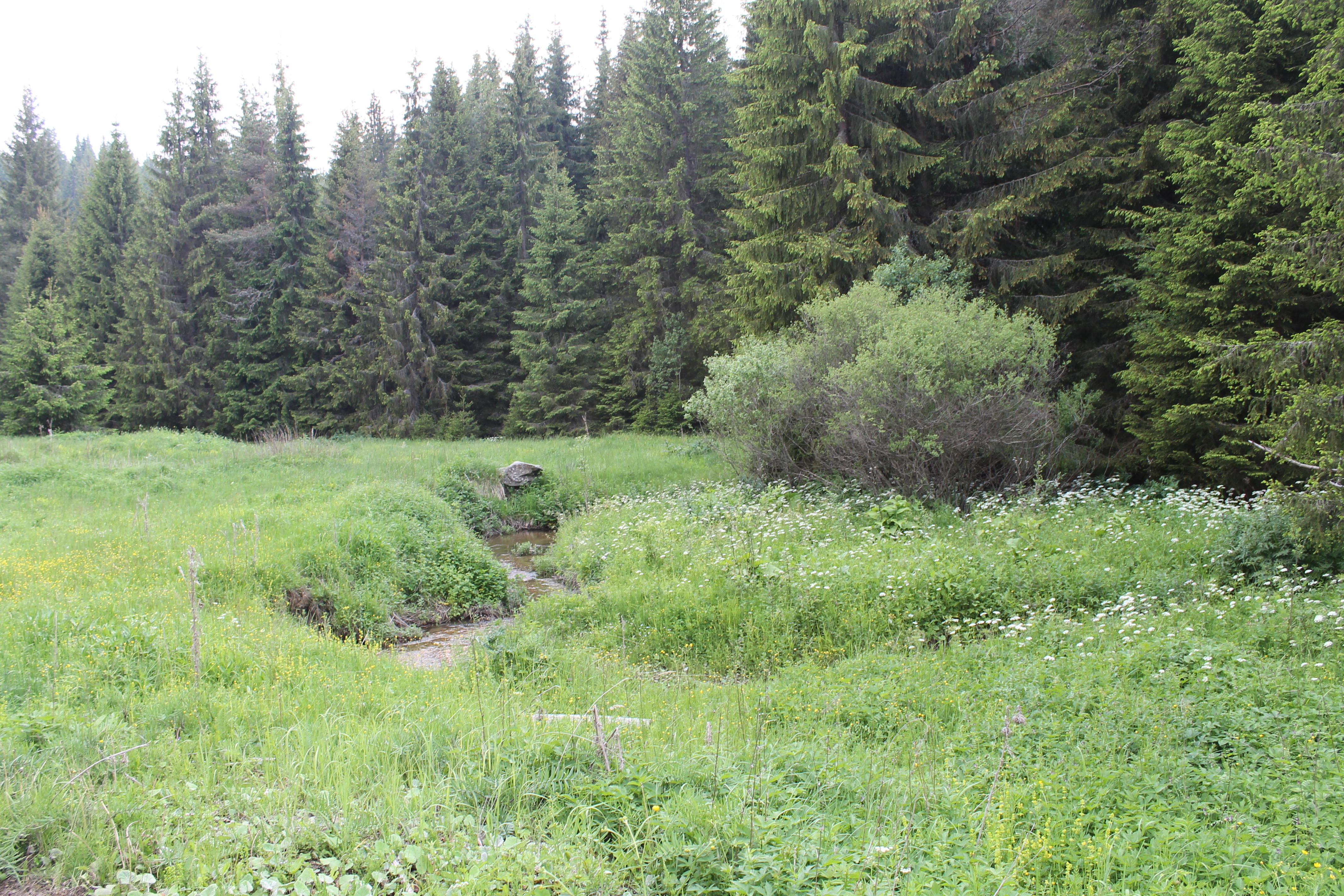 This is a photography of Natura 2000 protected area with ID GR1140003